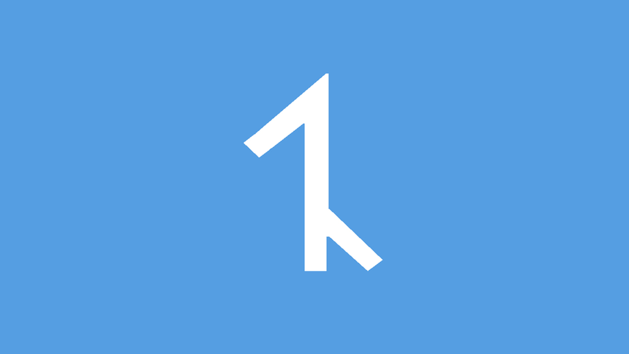 Historical flag of Alaiye (modern Alanya) with Avsharid tamgha.